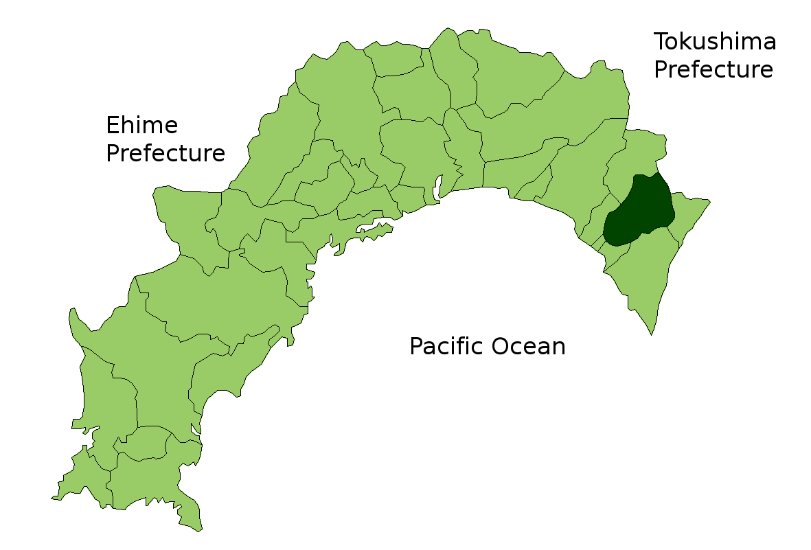 Map of Kochi Prefecture highlighting Kitagawa villege. Borders of map as of October, 2006. (blank map used from [1]) See also Image:KochiMapCurrent.png